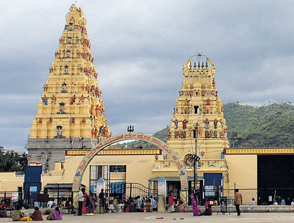 Male Mahadeswara temple